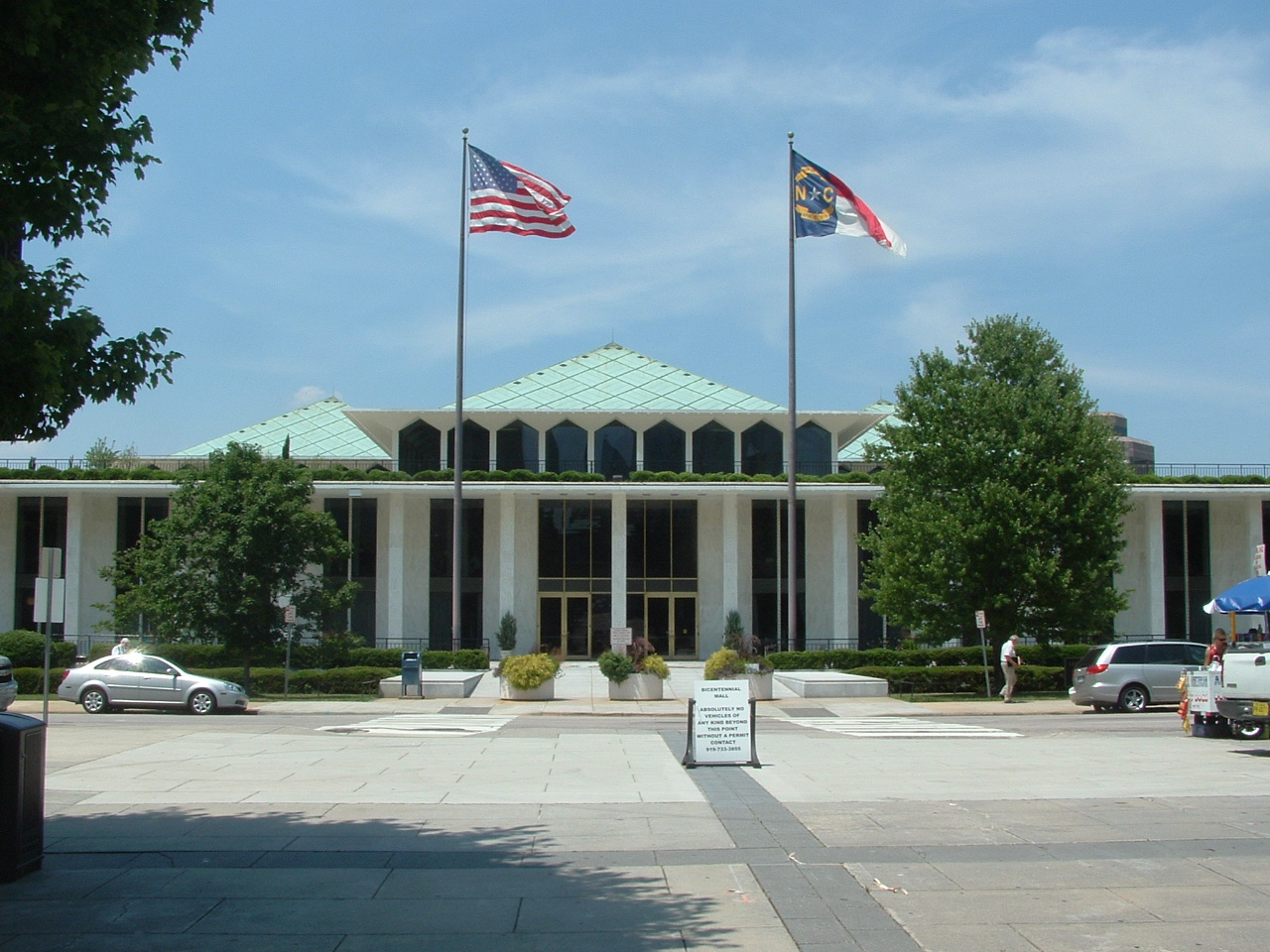 North Carolina State Legislative Building. Self-created image by Jayron32 of English Wikipedia, on 6/26/2008. File:NC Legislature.JPG by Jayron32, 6/27/2008 1:27 (UTC)